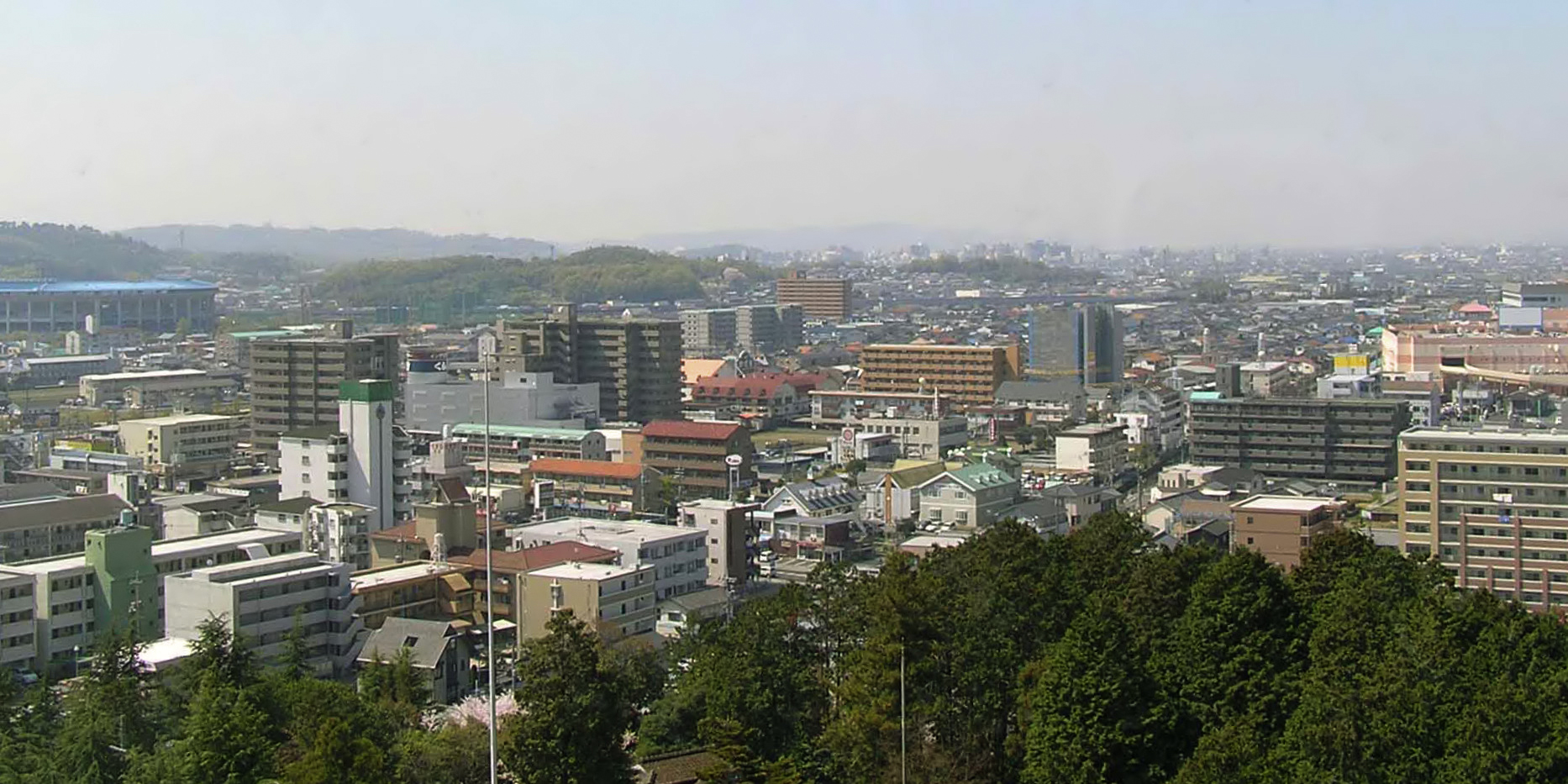 Urban area around Nakasho station